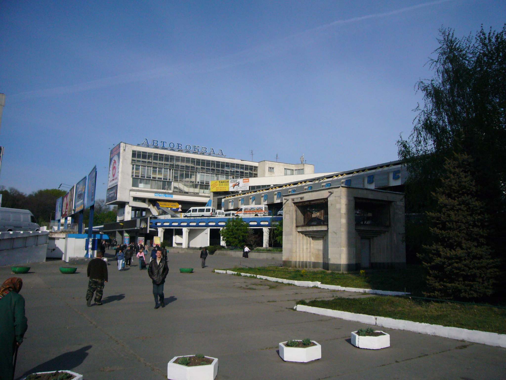 Bus station in Dnipropetrovsk, Ukraine